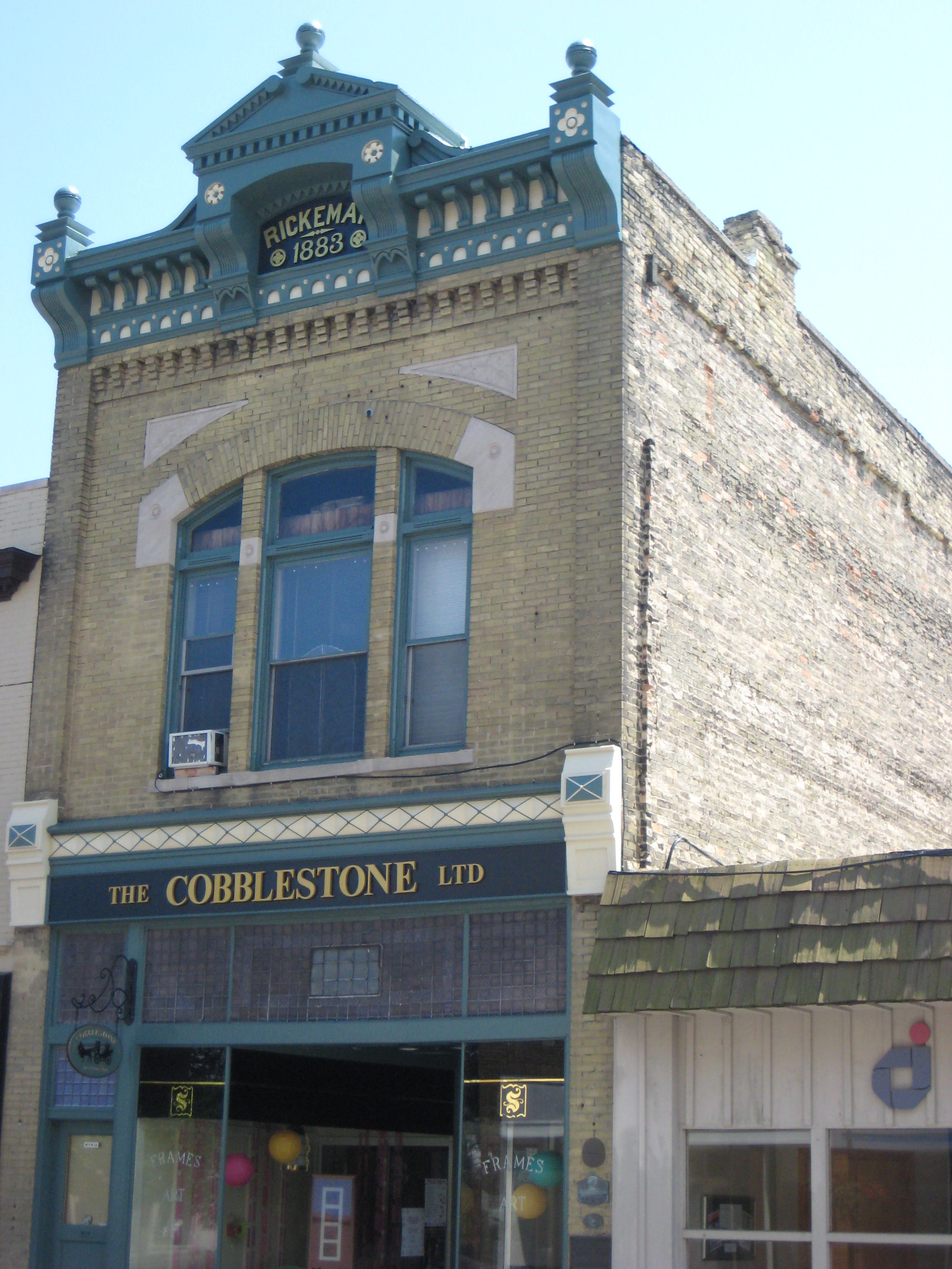 The Rickeman Grocery Building in Racine, Wisconsin. It is listed on the National Register of Historic Places.